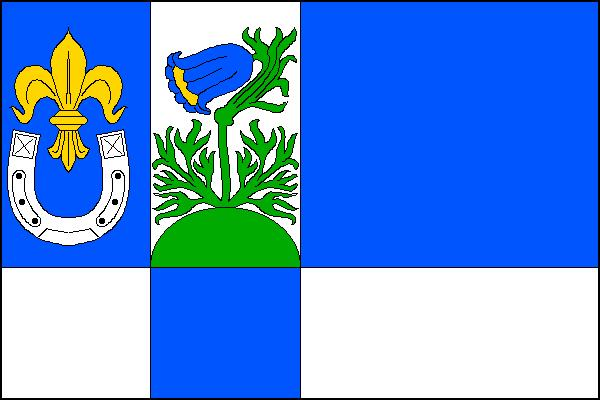 Municipal flag of Lužice village, Most District, Czech Republic.